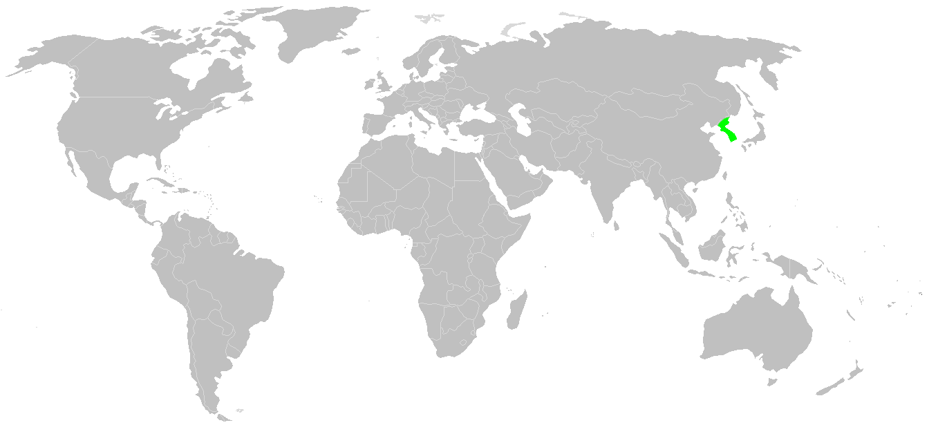 natural world distribution of Abeliophyllum distichum, according to the book "Plant" (2005) ISBN 075660589X